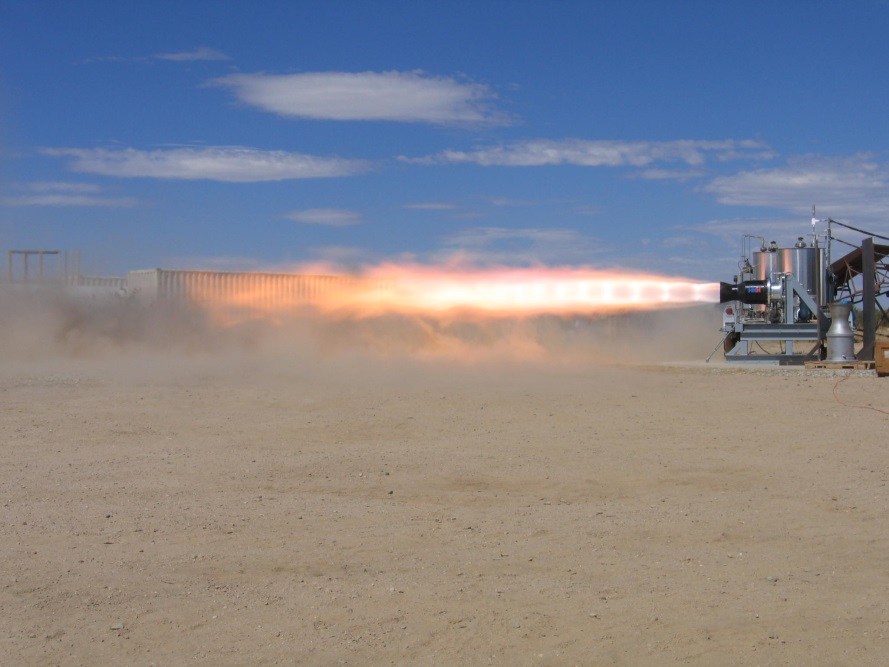 A test fire of the Falcon SLV Stage 2 engine. Mojave, CA. USA.